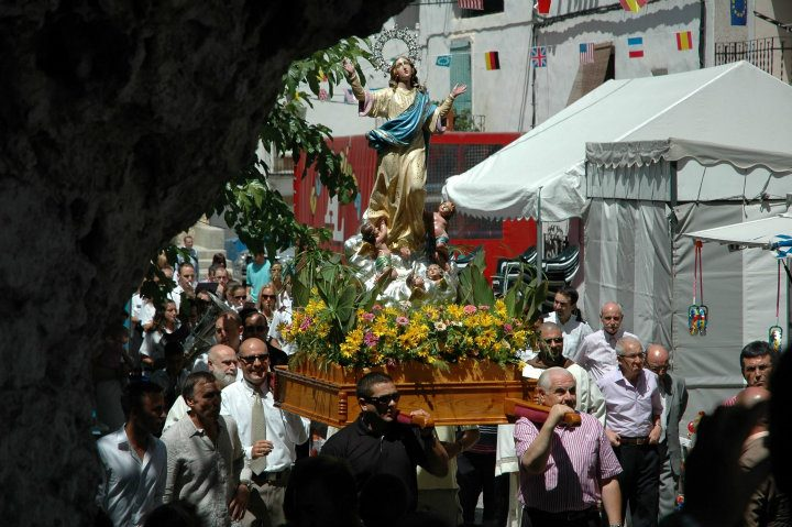 Procesión de la Virgen de la Asunción